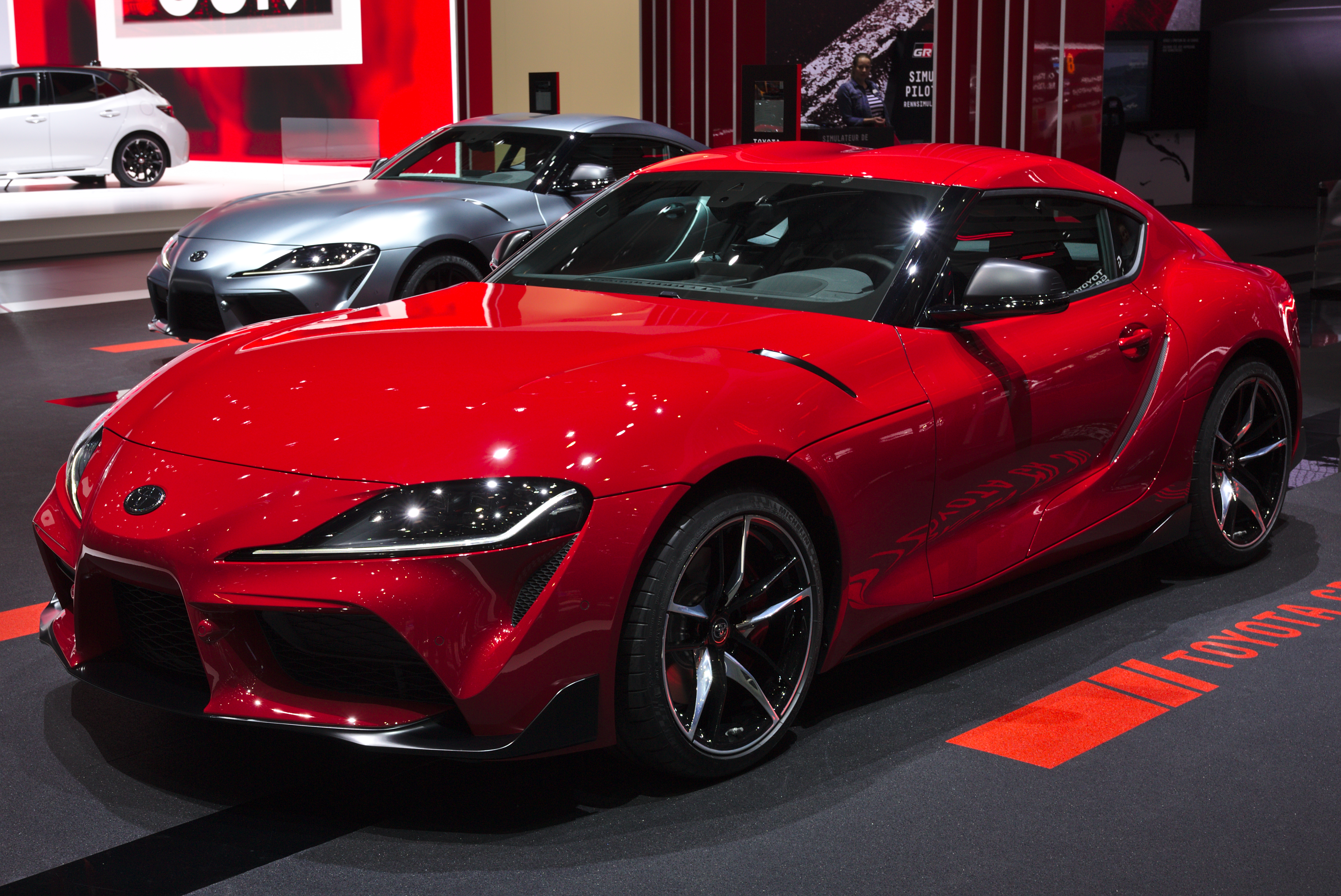 Toyota Supra GR at Geneva Motor Show 2019